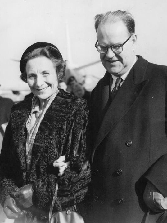 Prime Minister Tage Erlander with his wife Aina